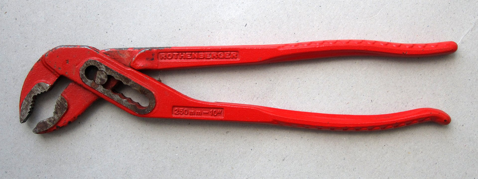 tongue-and-groove pliers made by Rothenberger